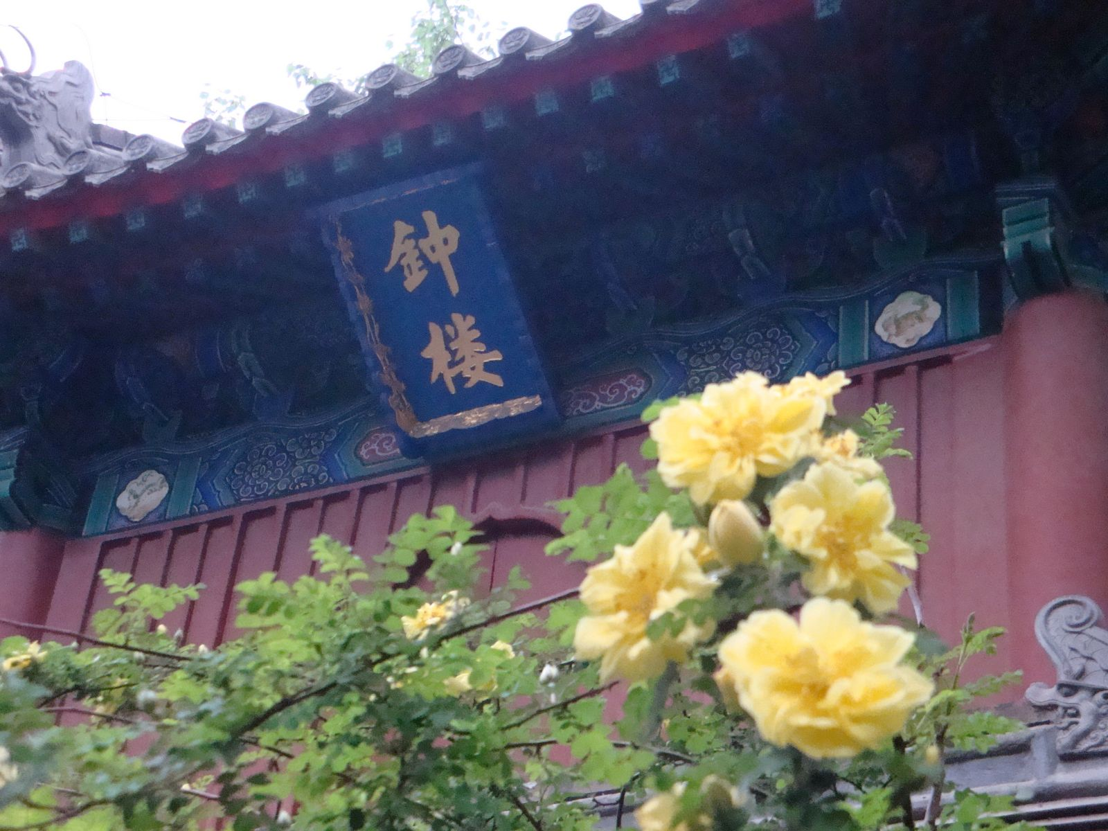 fayuan Temple